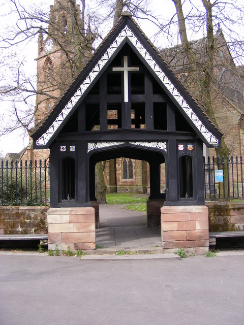 Darlaston Lych Gate The beautiful gate to St Lawrence Church in Church Street.